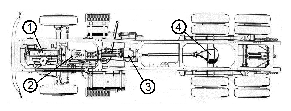 Chassis of Sisu K-44SU 4×4+2 with drivetrain component descriptions.